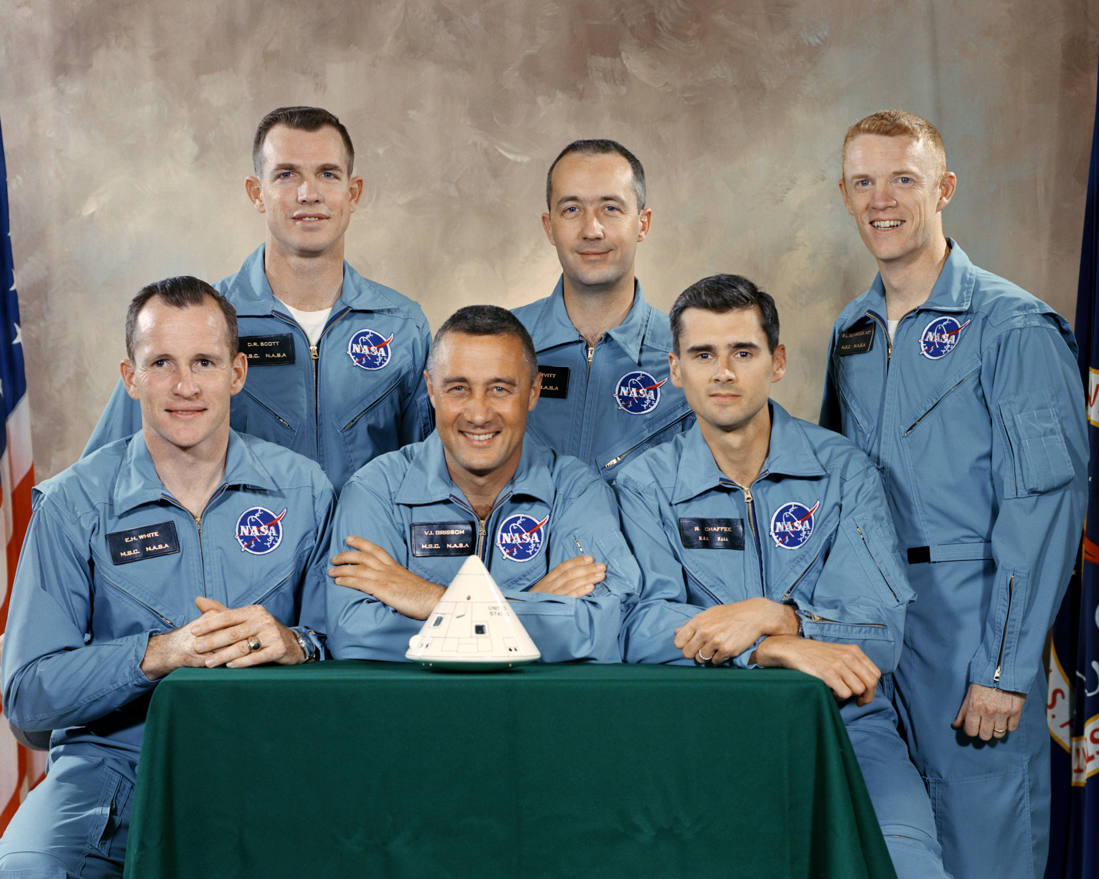 Apollo 1 prime and backup crews. Seated is the prime crew (left to right) Edward H. White II, Virgil I. Grissom, and Roger B. Chaffee. Standing is the backup crew (left to right) David R. Scott, James A. McDivitt, and Russell L. Schweickart.